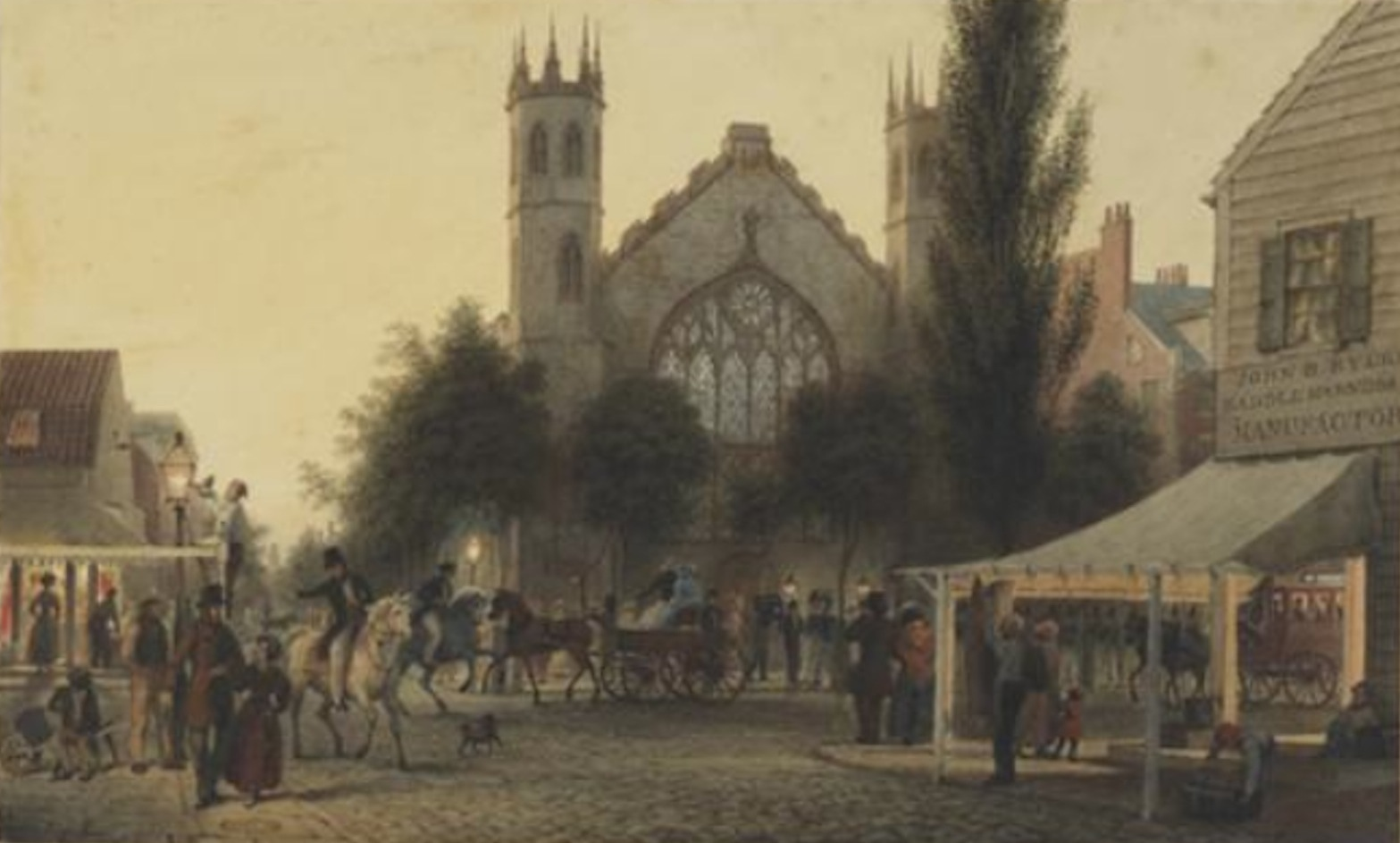 Night-fall. St. Thomas' Church, Broadway, New York. In the Museum of the City of New York.